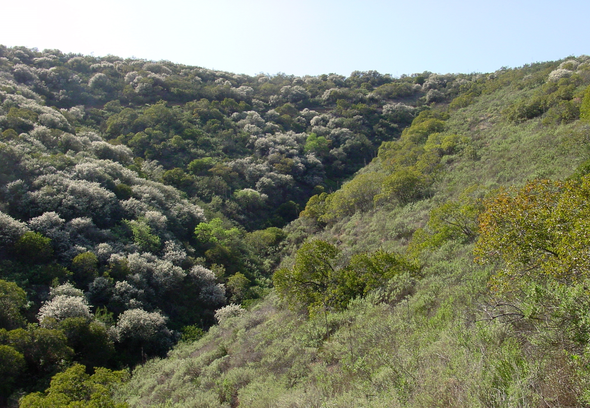 Slope effect in the coastal sage scrub plant community, in the Santa Monica Mountains, southern California. The slope on the left side is north-facing, and dominated by (white blooming) Ceanothus crassifolius. The south-facing slope on the right side is much drier, and more sparsely vegetated with Artemisia californica and Yucca whipplei. This plant community is in the California chaparral and woodlands ecoregion.